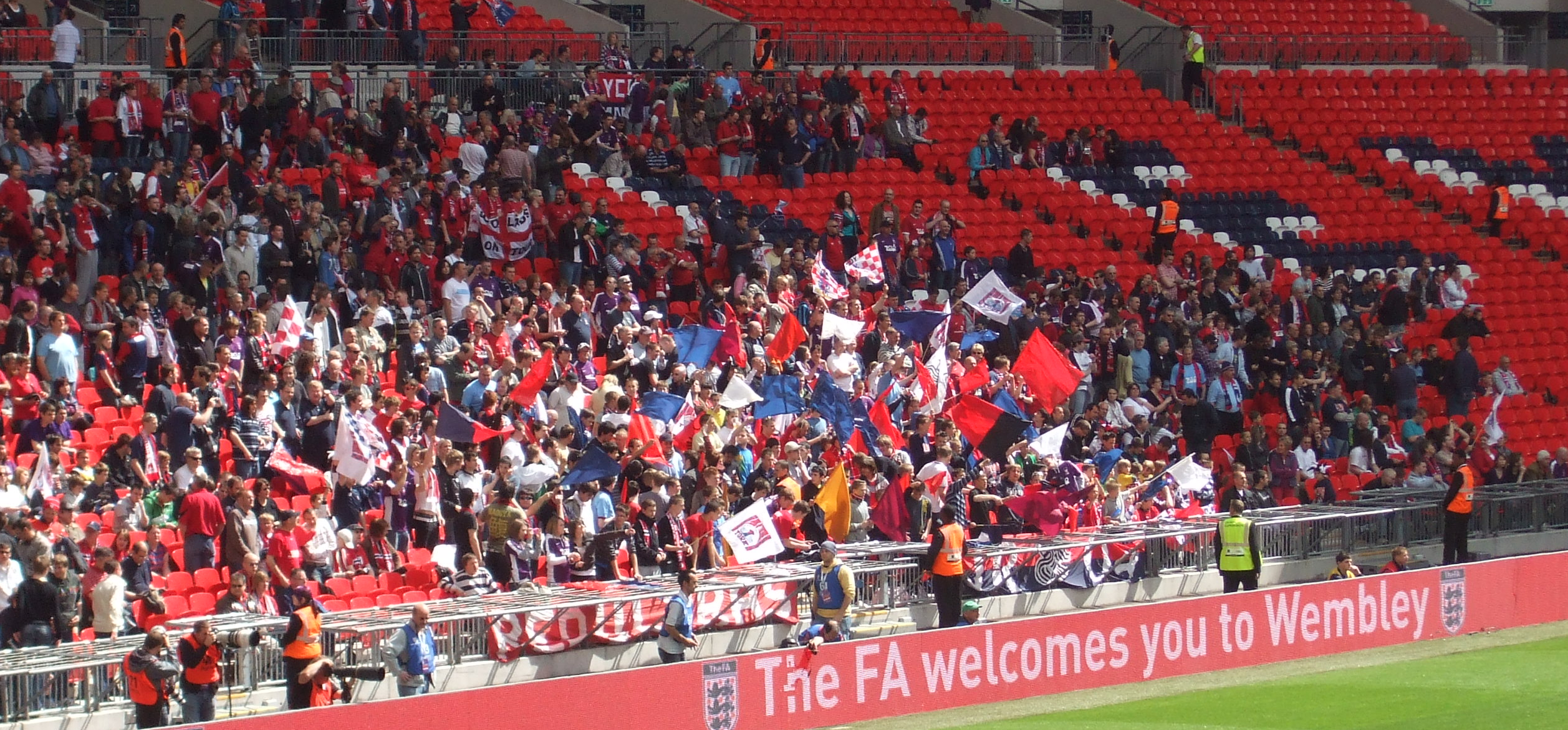 York City supporters behing the goal in the FA Trophy final in 2009